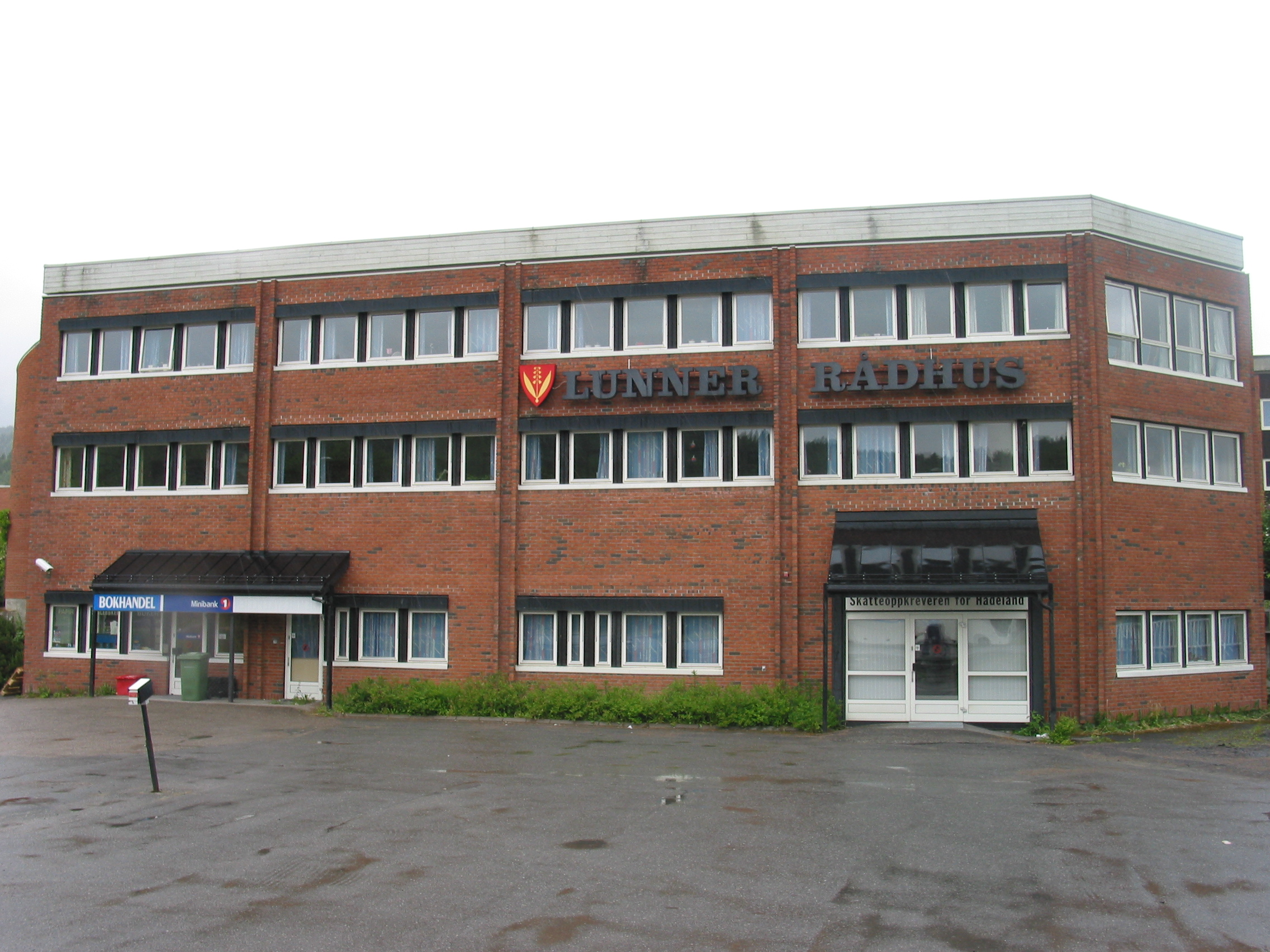 Lunner town hall, in the village of Roa. June 2008.